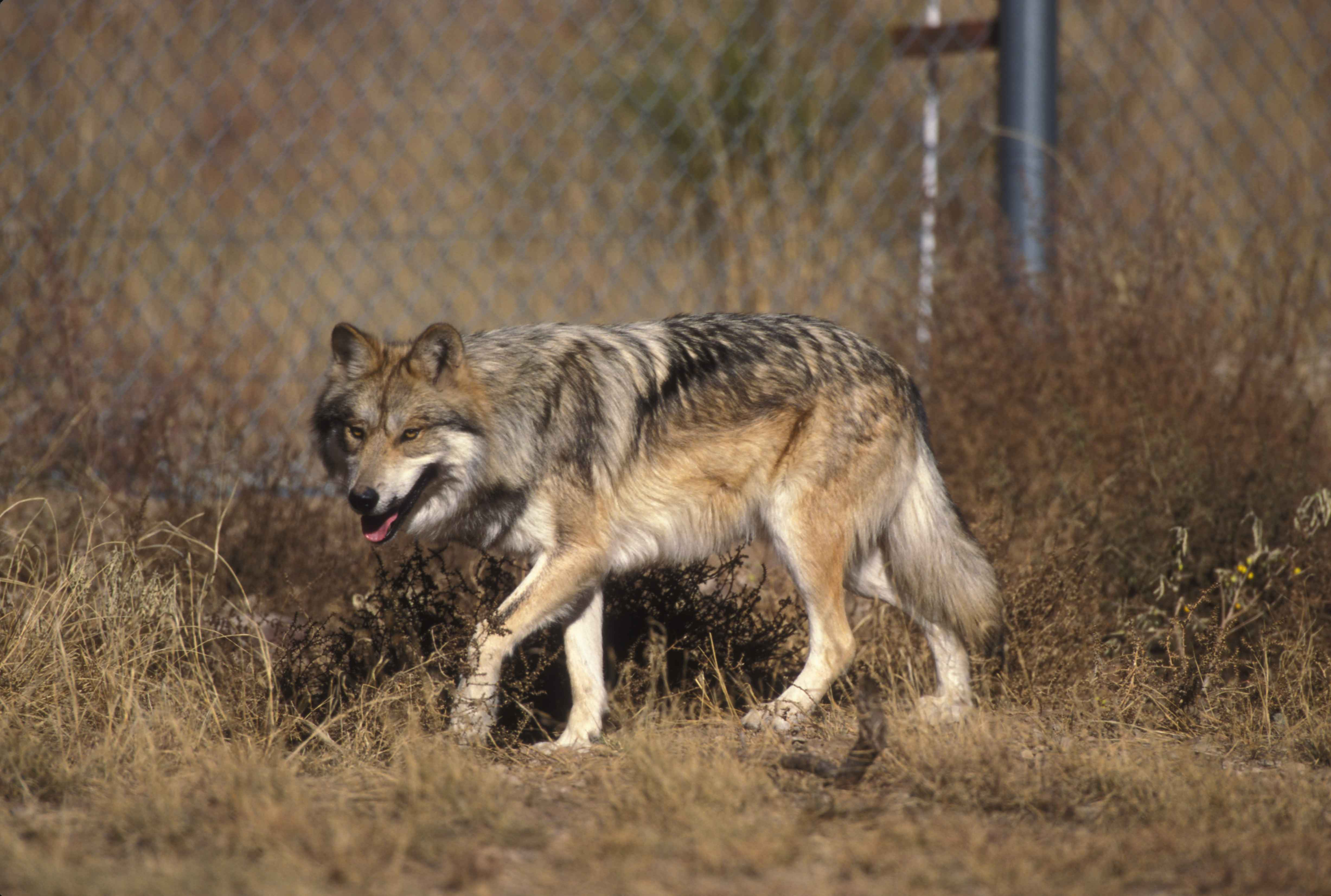 Image title: Mexican wolf canis lupus baileyi Image from Public domain images website